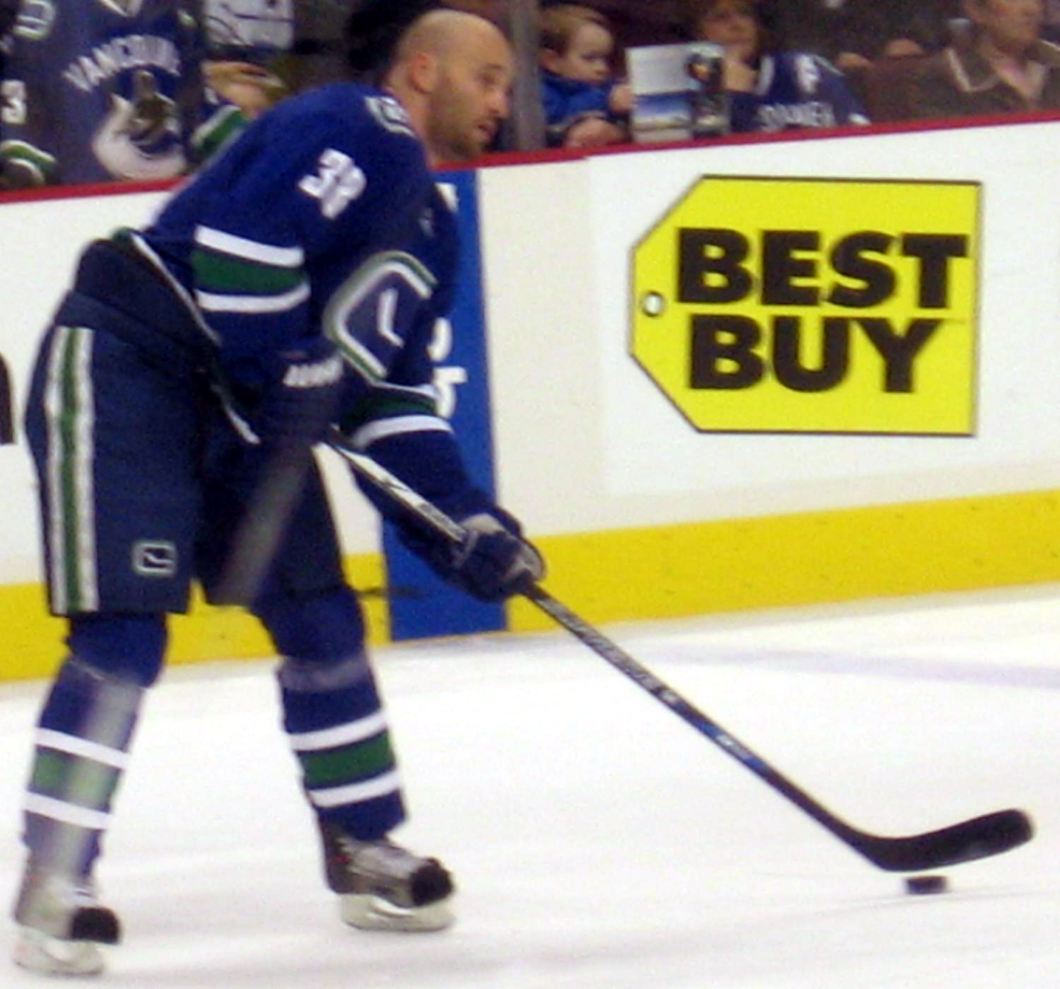 Pavol Demitra of the Vancouver Canucks warming up at GM Place in Vancouver before playing the Columbus Blue Jackets on January 18, 2009.